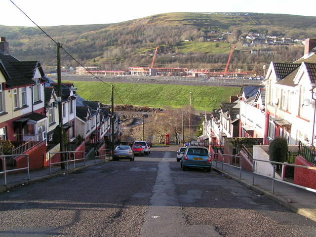 Ashvale